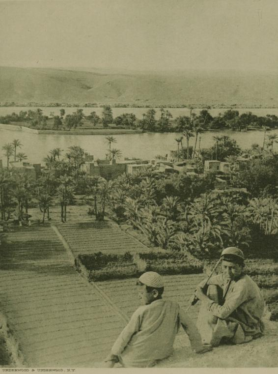 Allegedly the location of the Garden of Eden, at the mouth of the Tigris